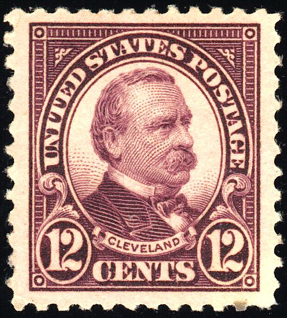 US Postage stamp: Grover Cleveland, 1923 issue, 12c, brown-violet